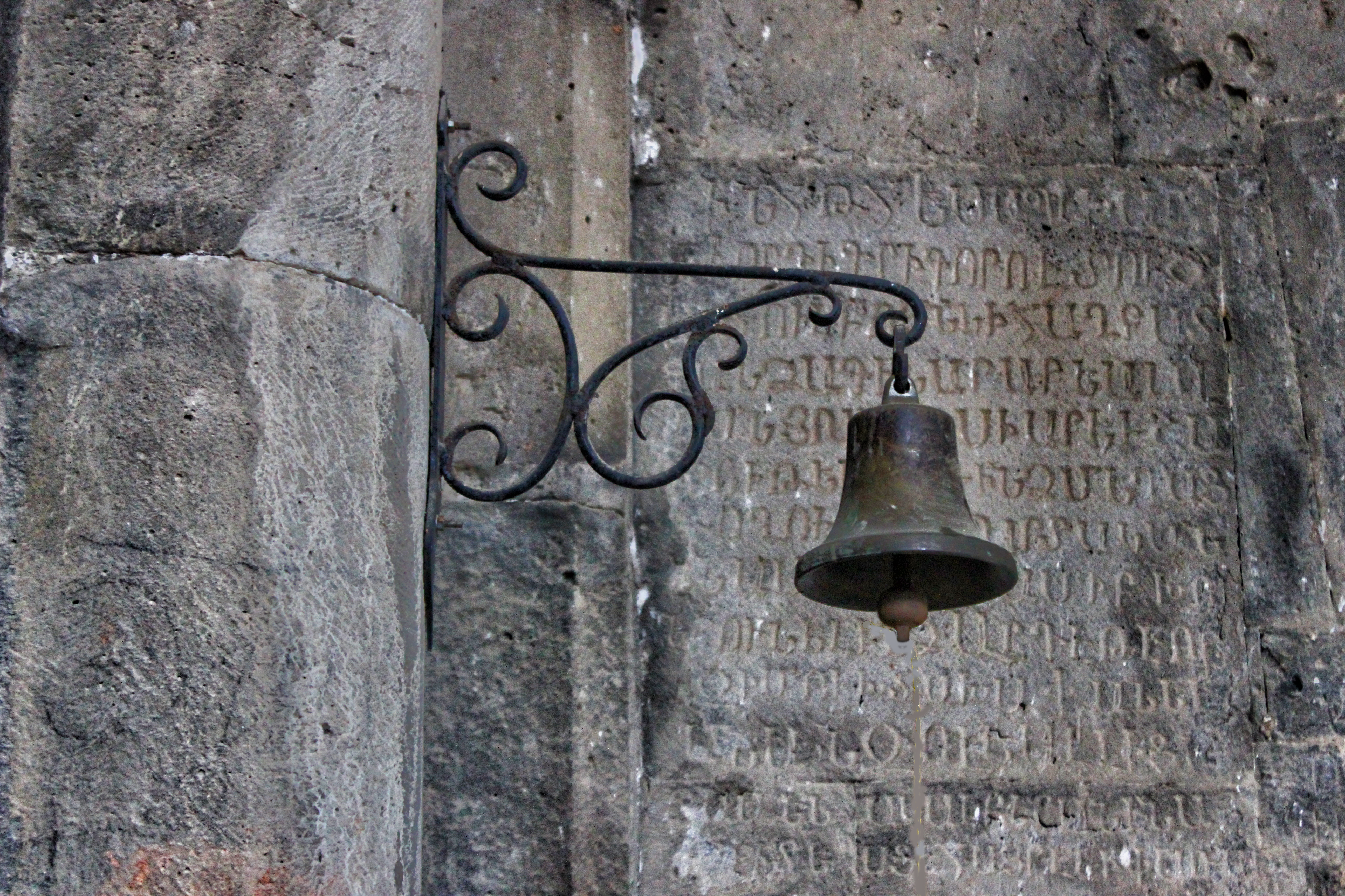 The bell in Haghpat church